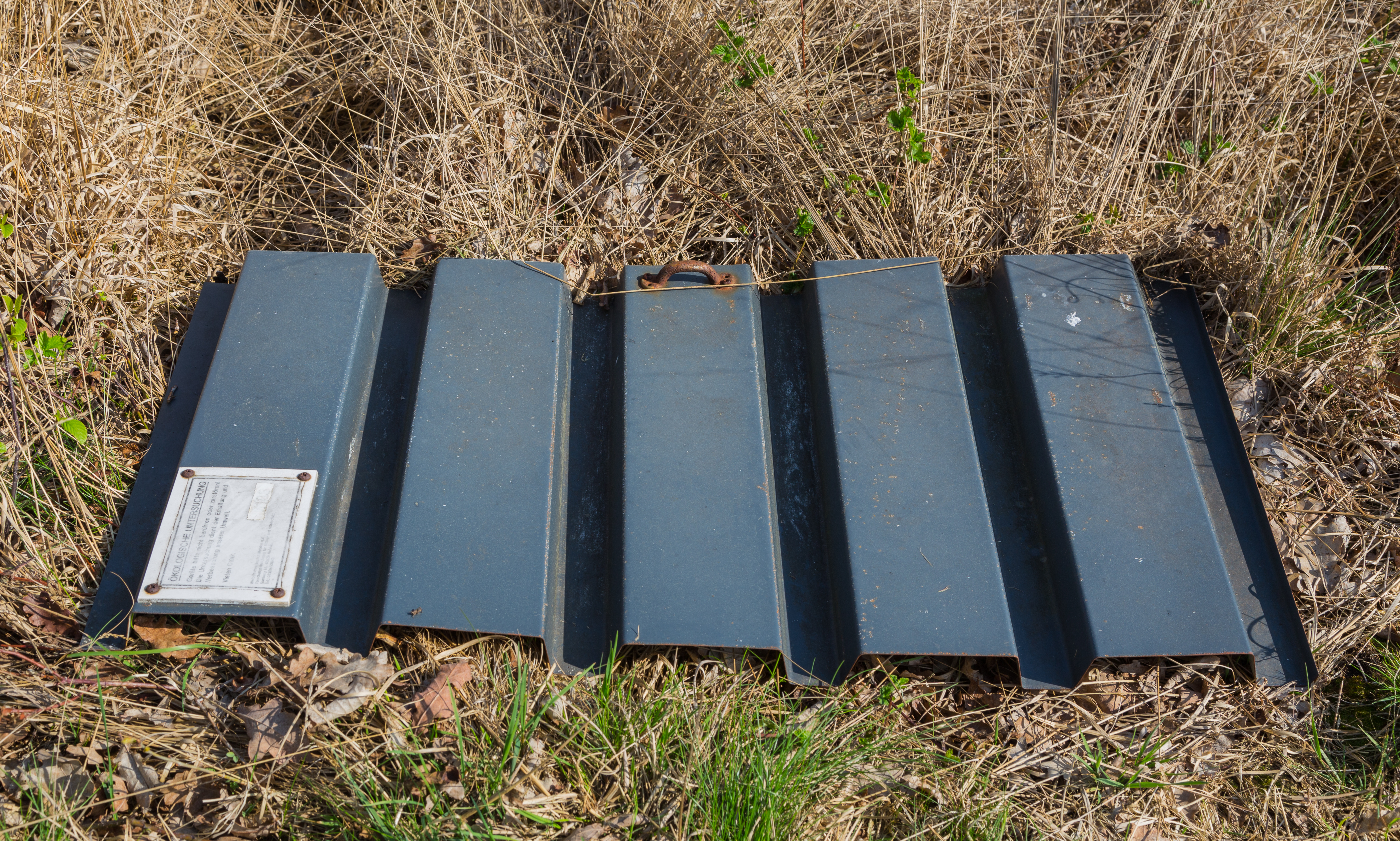 A reptile cover board in use at the nature reserve (Naturschutzgebiet) „Recker Moor“ in Recke-Langenacker, Kreis Steinfurt, North Rhine-Westphalia, Germany.